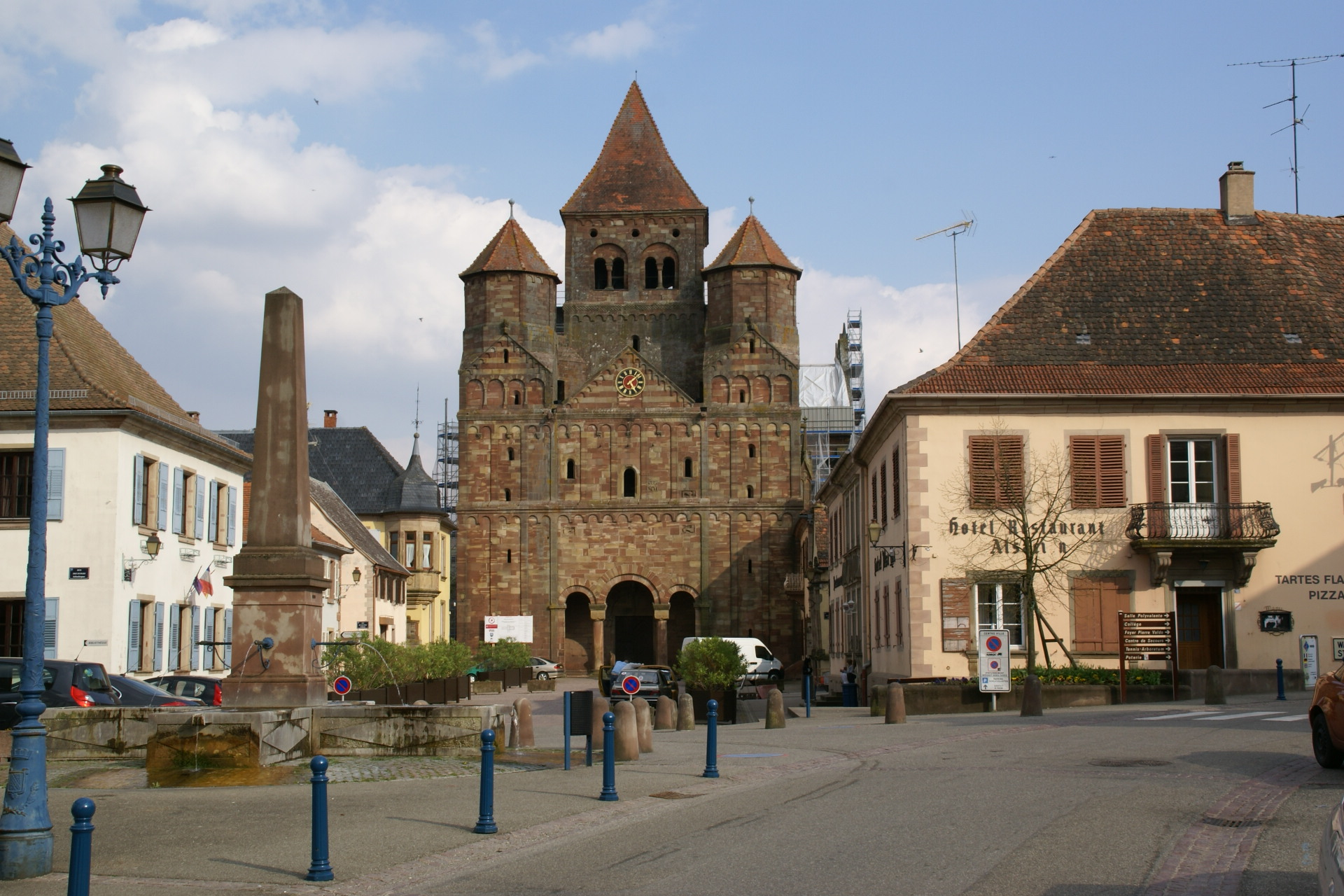 Abbey church at the town of Marmoutier in Alsace (France)